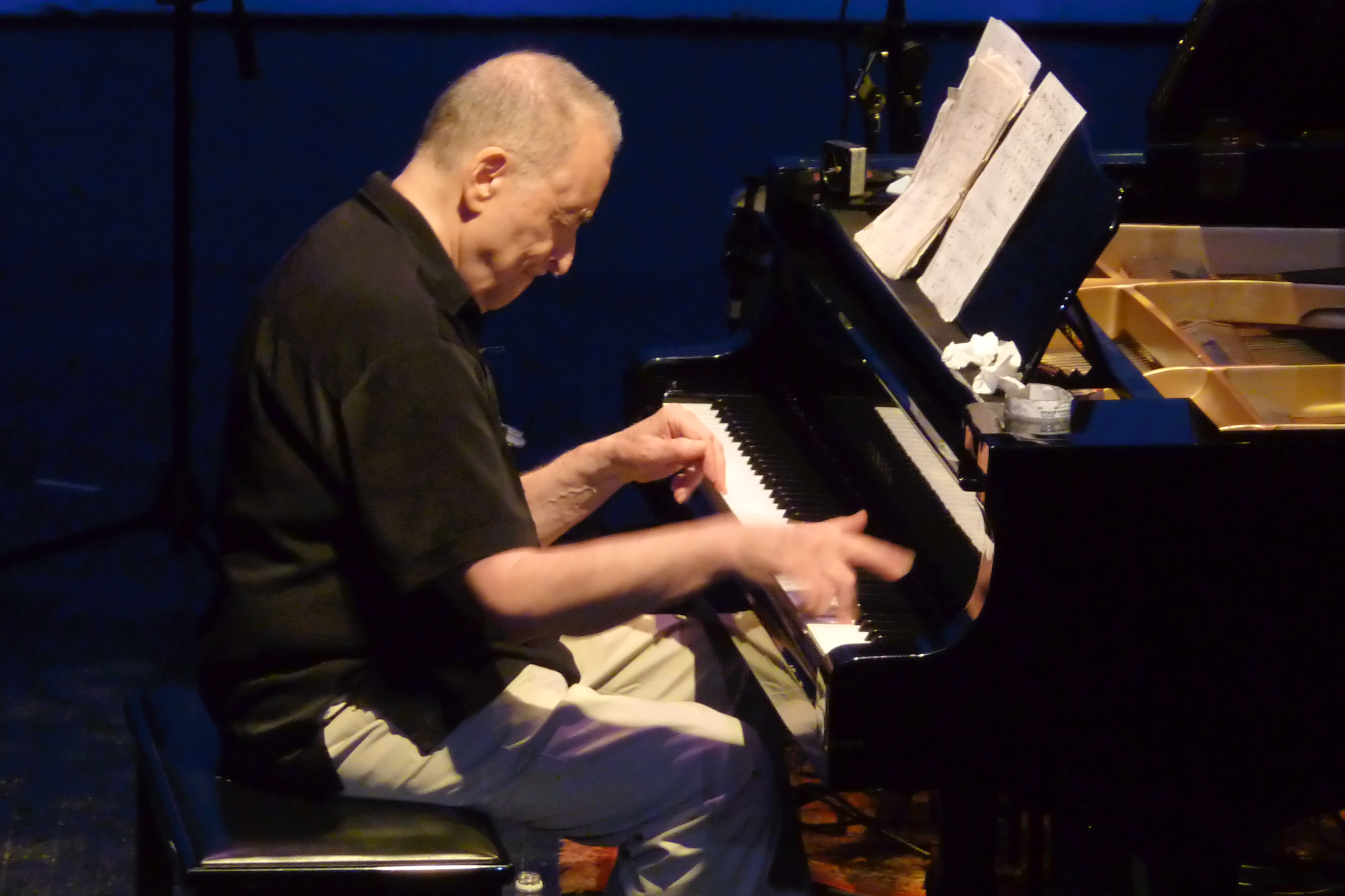 Borah Bergman Solo Abrons Arts Center, NYC. Vision Festival XV 26.6.10